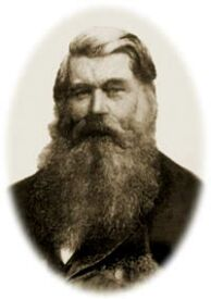 19th century (or early 20th century) photograph. public domain.